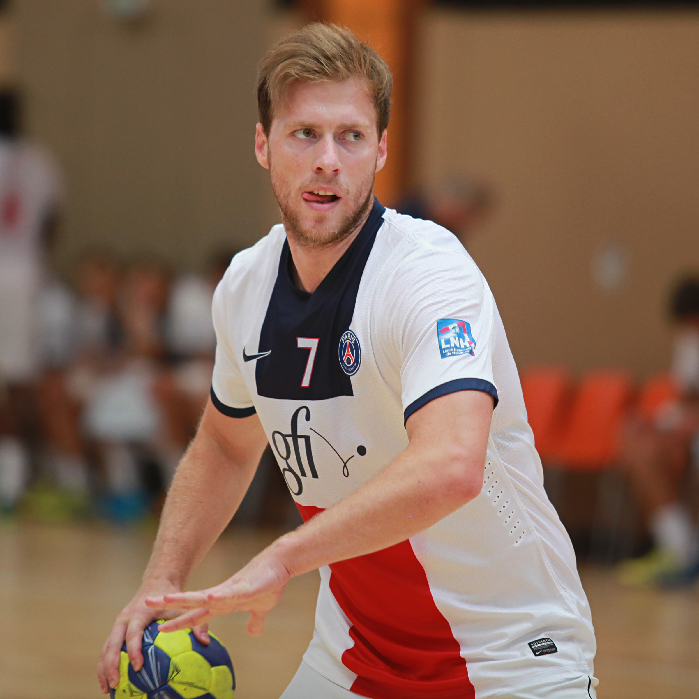 Gábor Császár, on August 17th, 2012 in Ehingen (Germany), during the Sparkassen Cup (formerly known as Schlecker Cup).